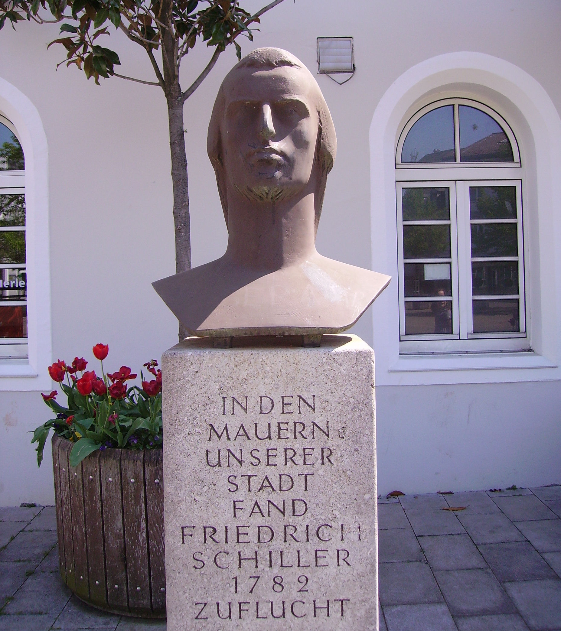 view of Oggersheim, part of Ludwigshafen, Germany